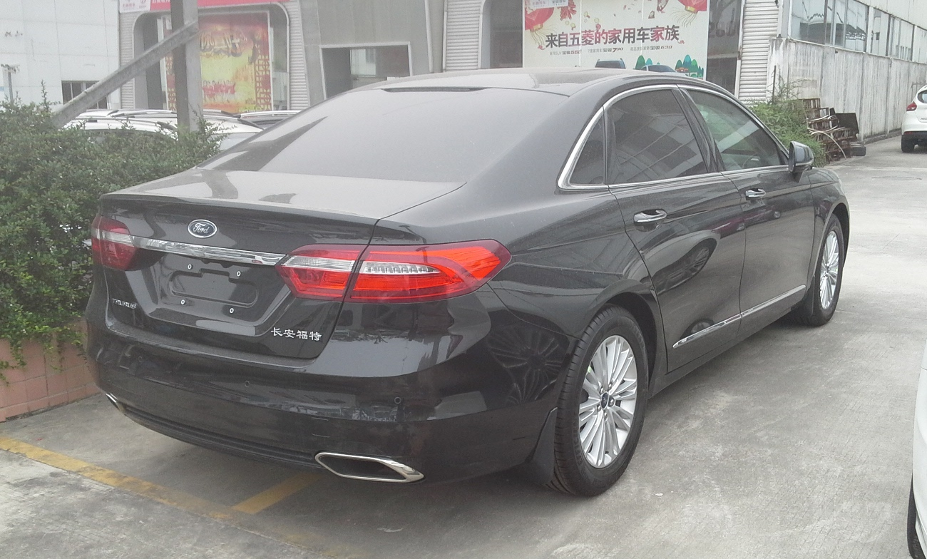 Ford Taurus CN photographed in Zhanjiang, Guangdong province, China.